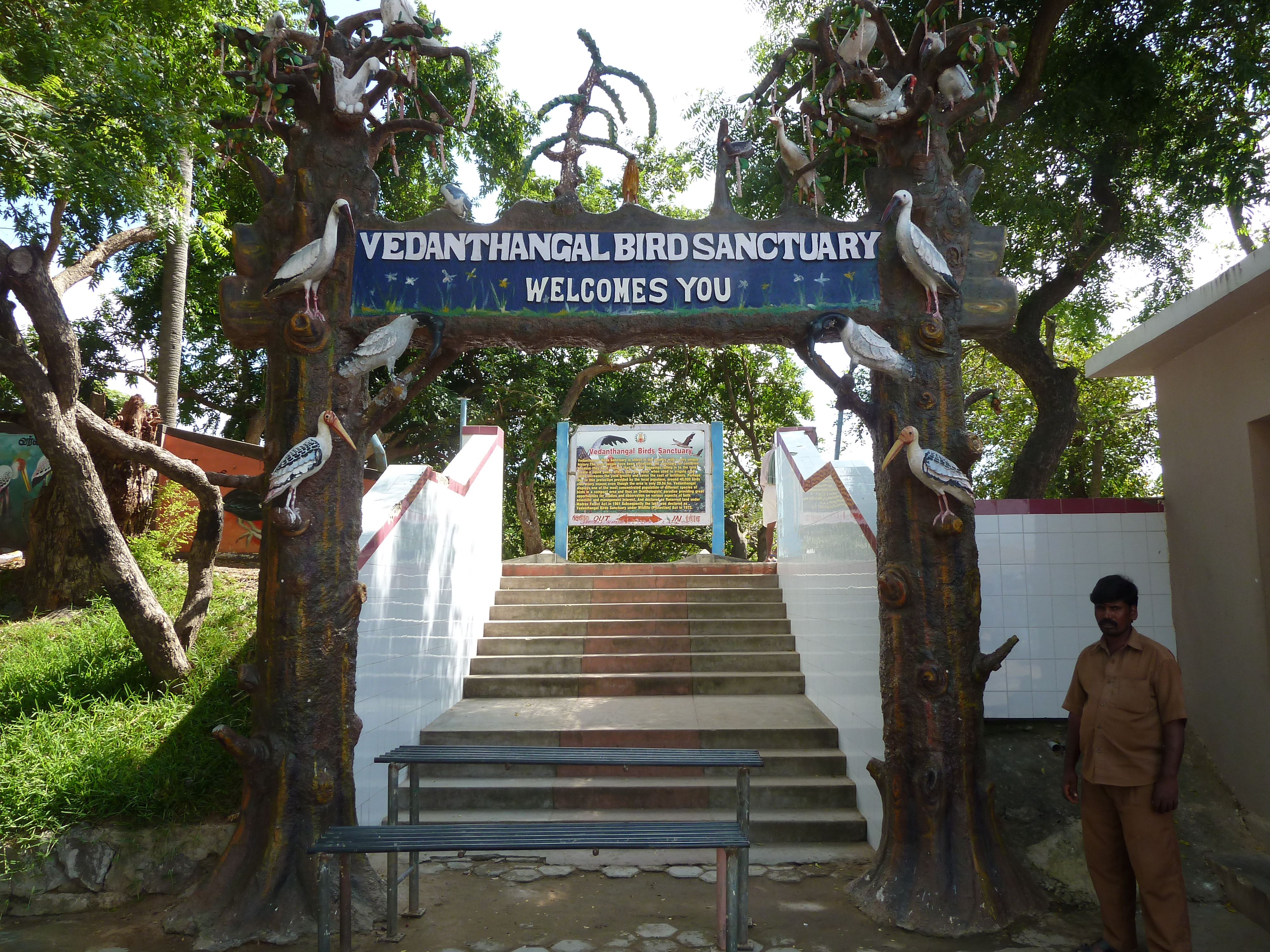 The entrance of Vendanthangal Bird sanctuary situated in Kancheepuram district, India